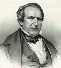 Andrew Jackson Donelson (detail of a lithography)